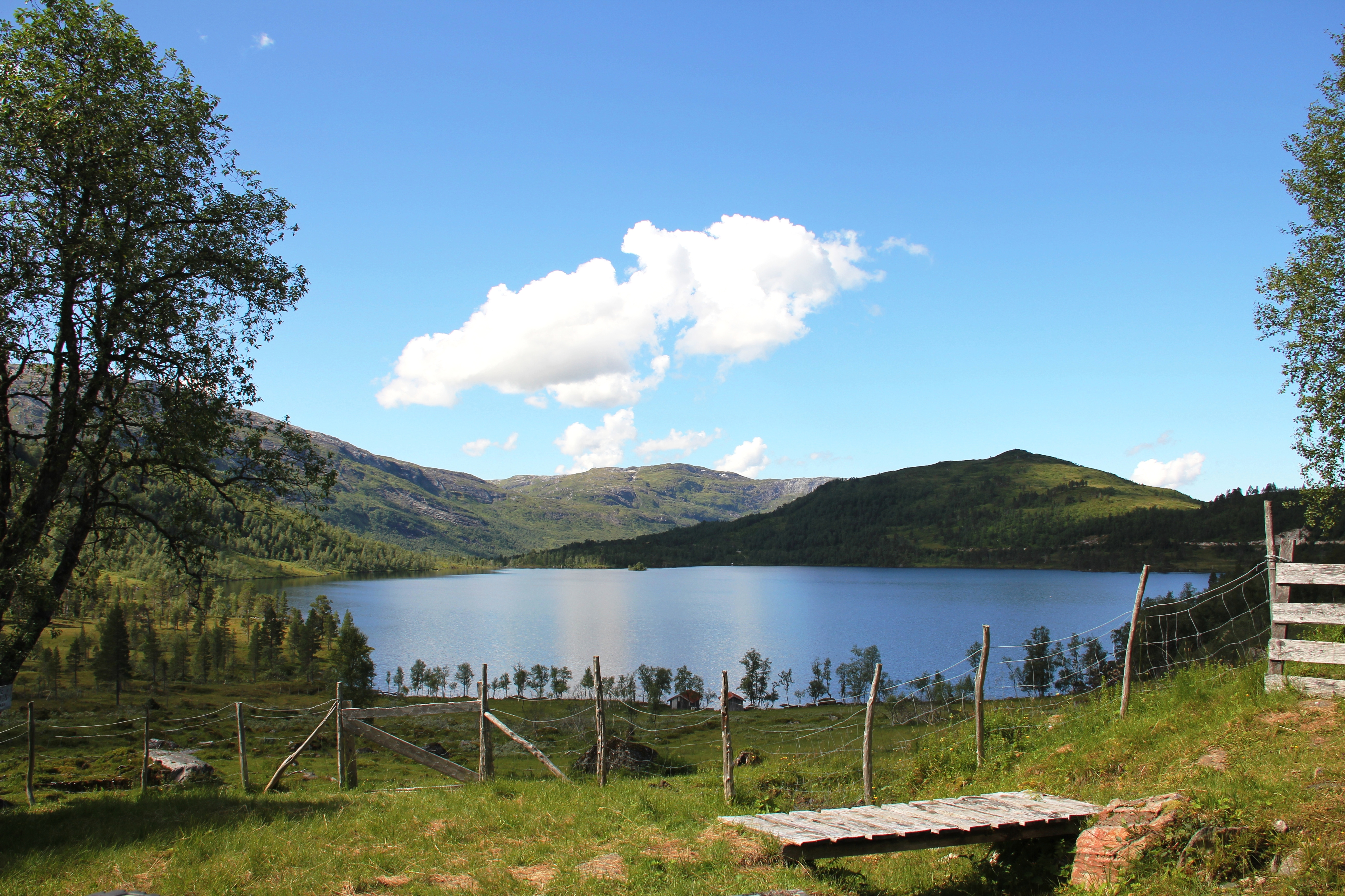 Dalevatnet, a mountain lake in Gjengedal in Hyen, Gloppen